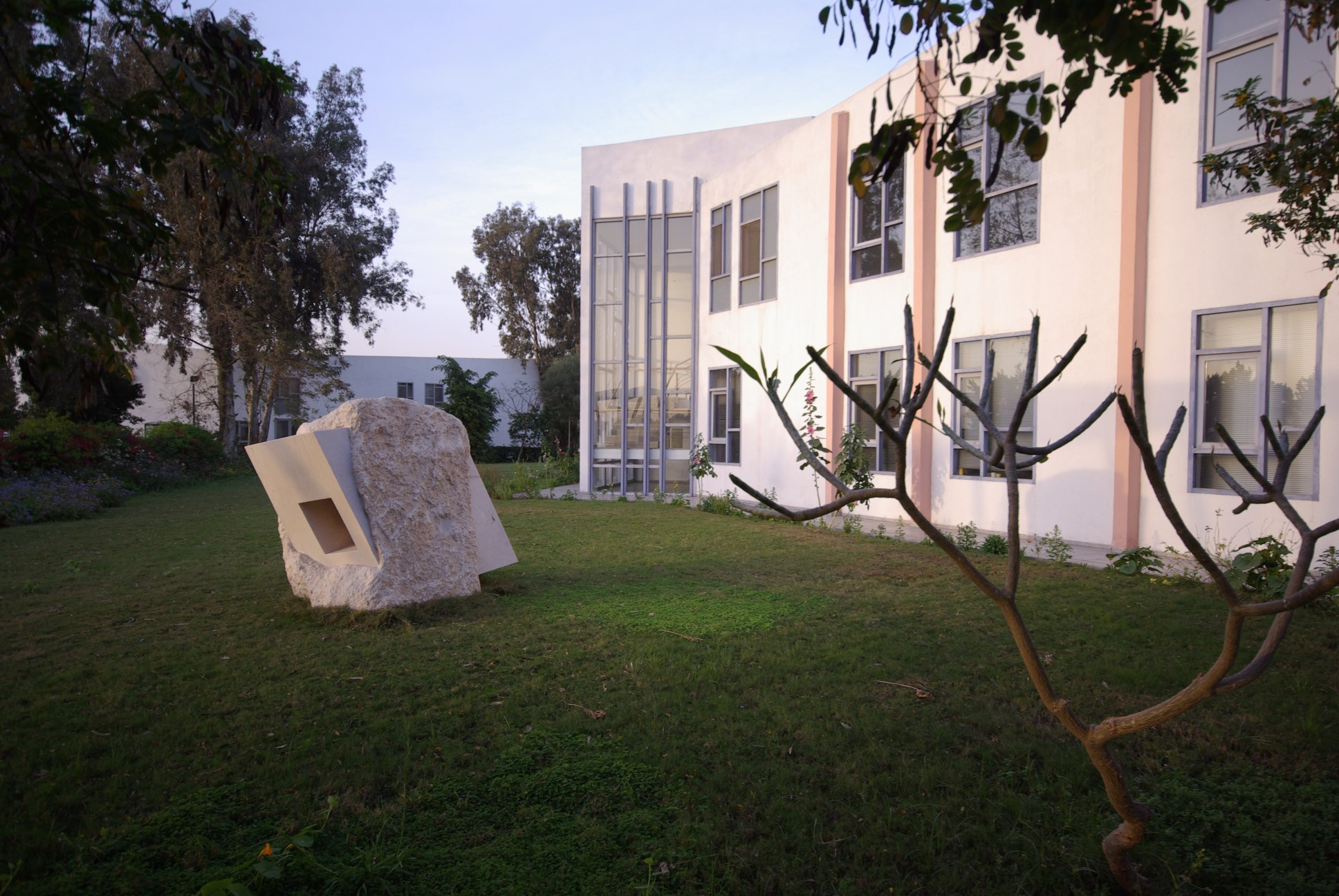 The main building of the Heliopolis University campus on the outskirts of Cairo, Egypt.